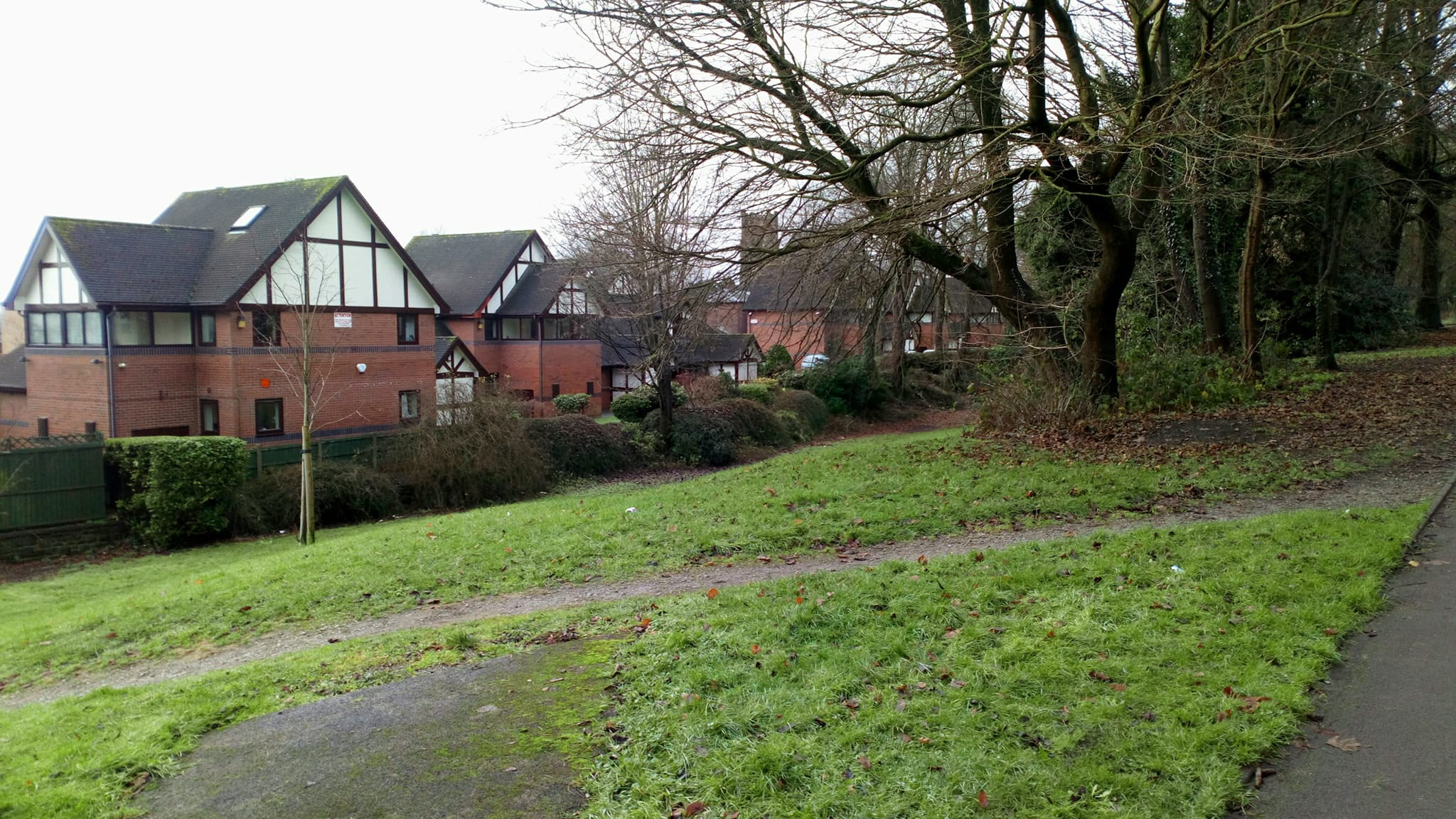 This is my photo I have taken of Newcastle-Under-Lyme railway station.